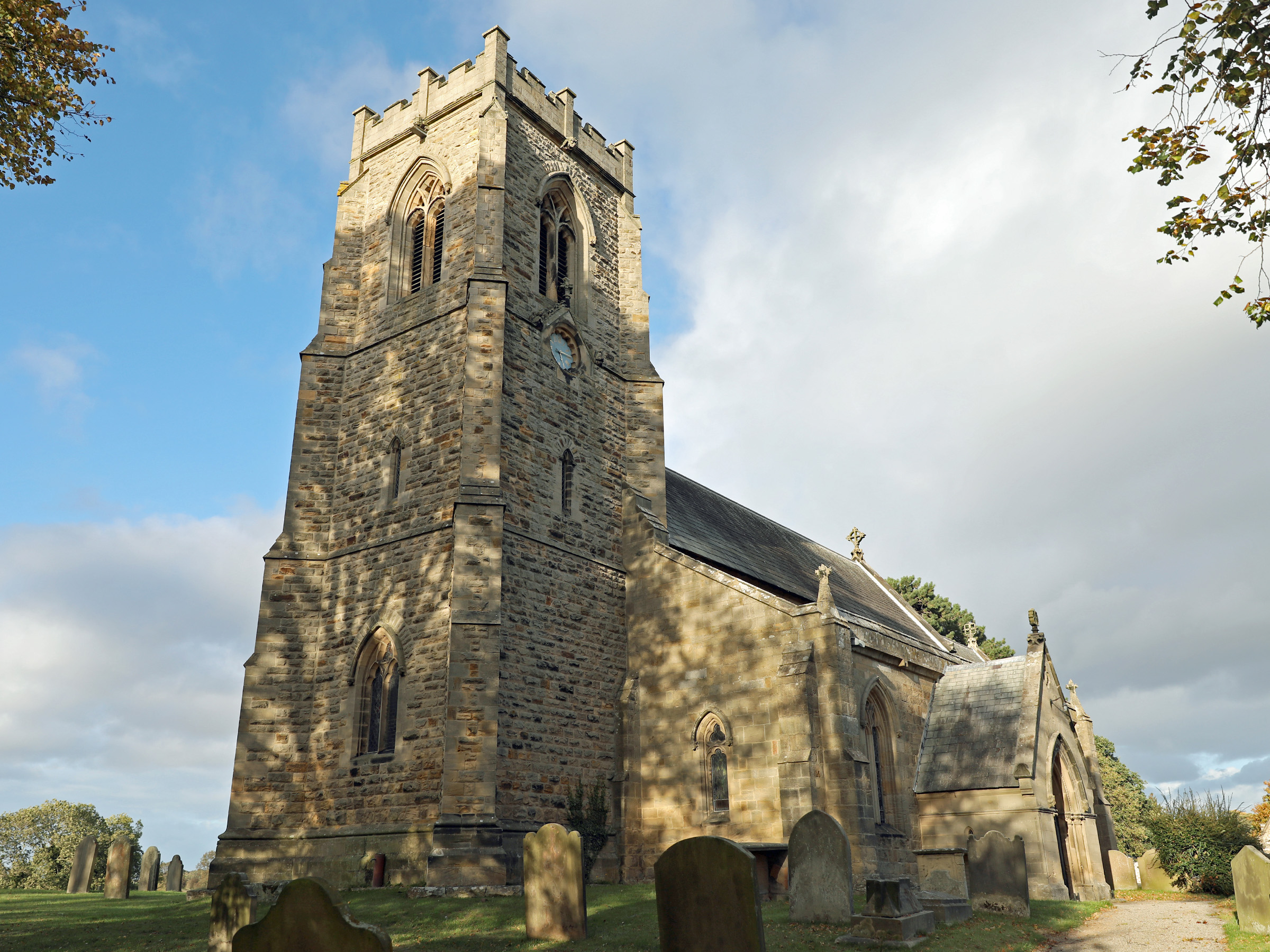 Church of St Patrick, Patrick Brompton, taken from the west